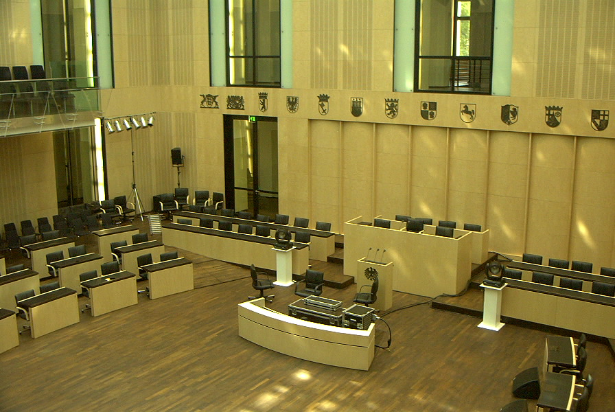 Plenary chamber of german Bundesrat (upper house) in Berlin.